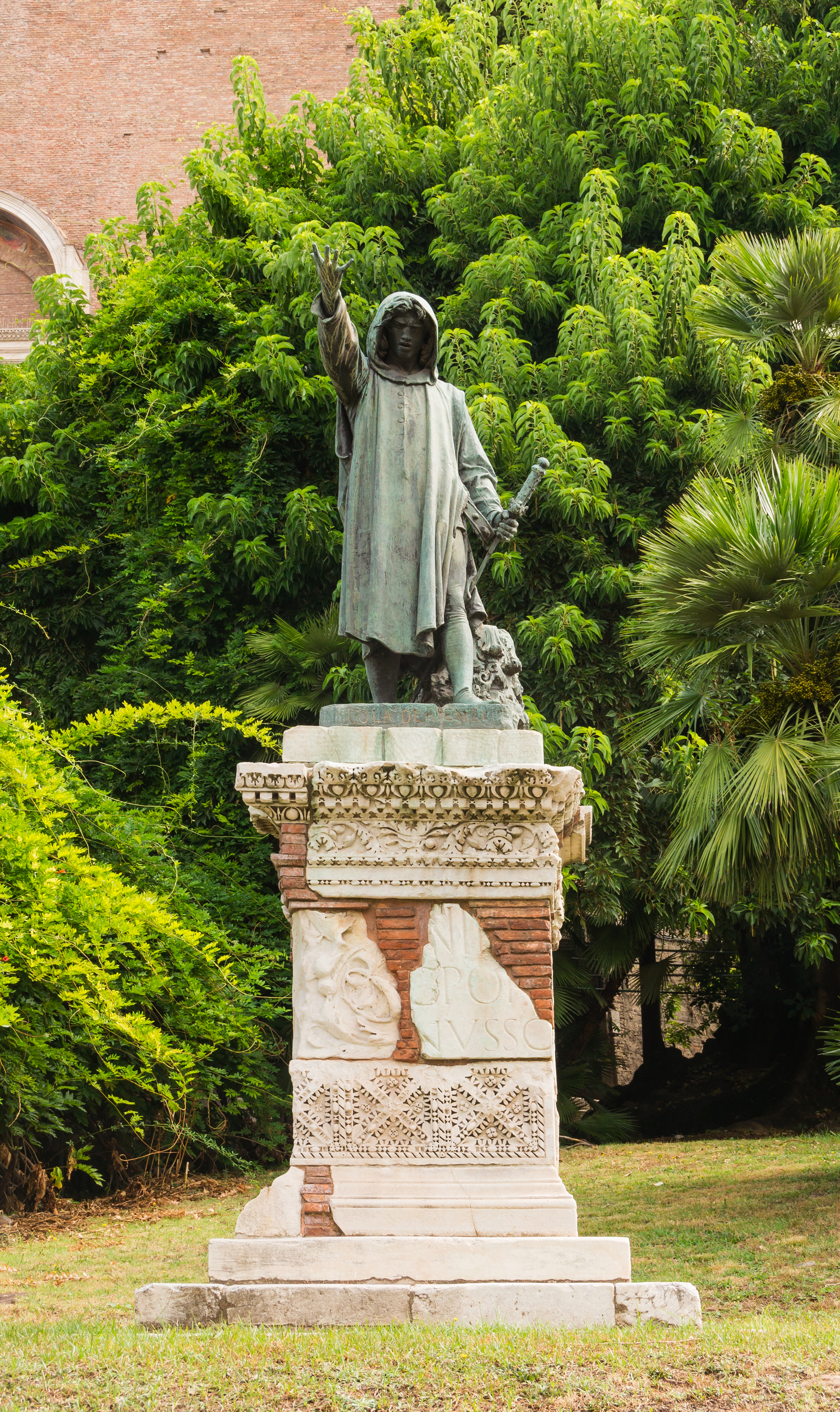 Monument to Cola di Rienzo (Rome), Italy.